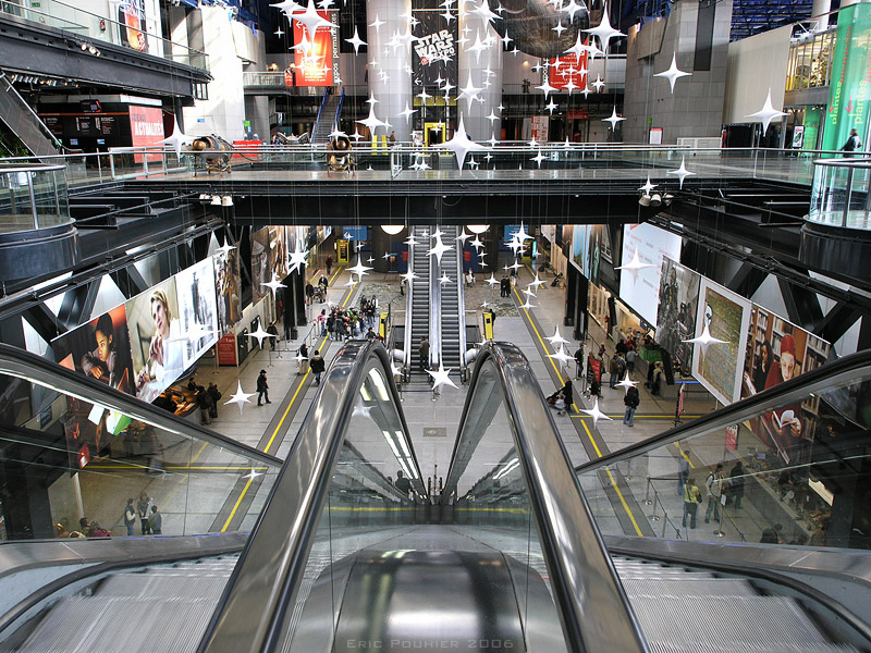 Largest European Science Musem, Paris 2006.